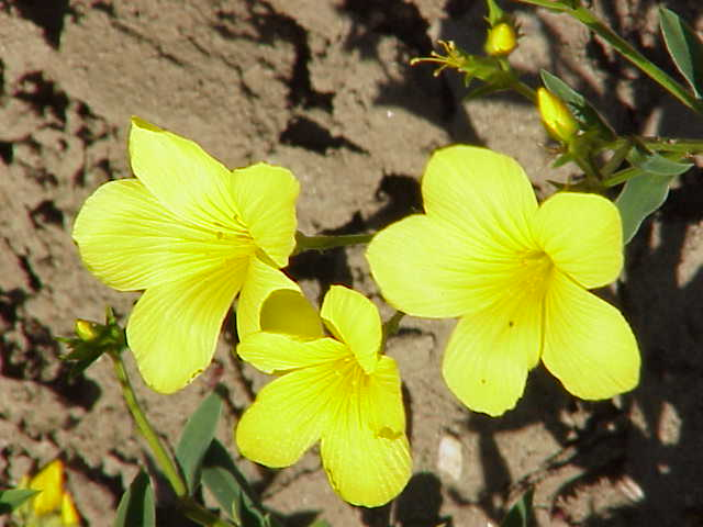 Species: Linum flavum Family: Linaceae Image No. 1